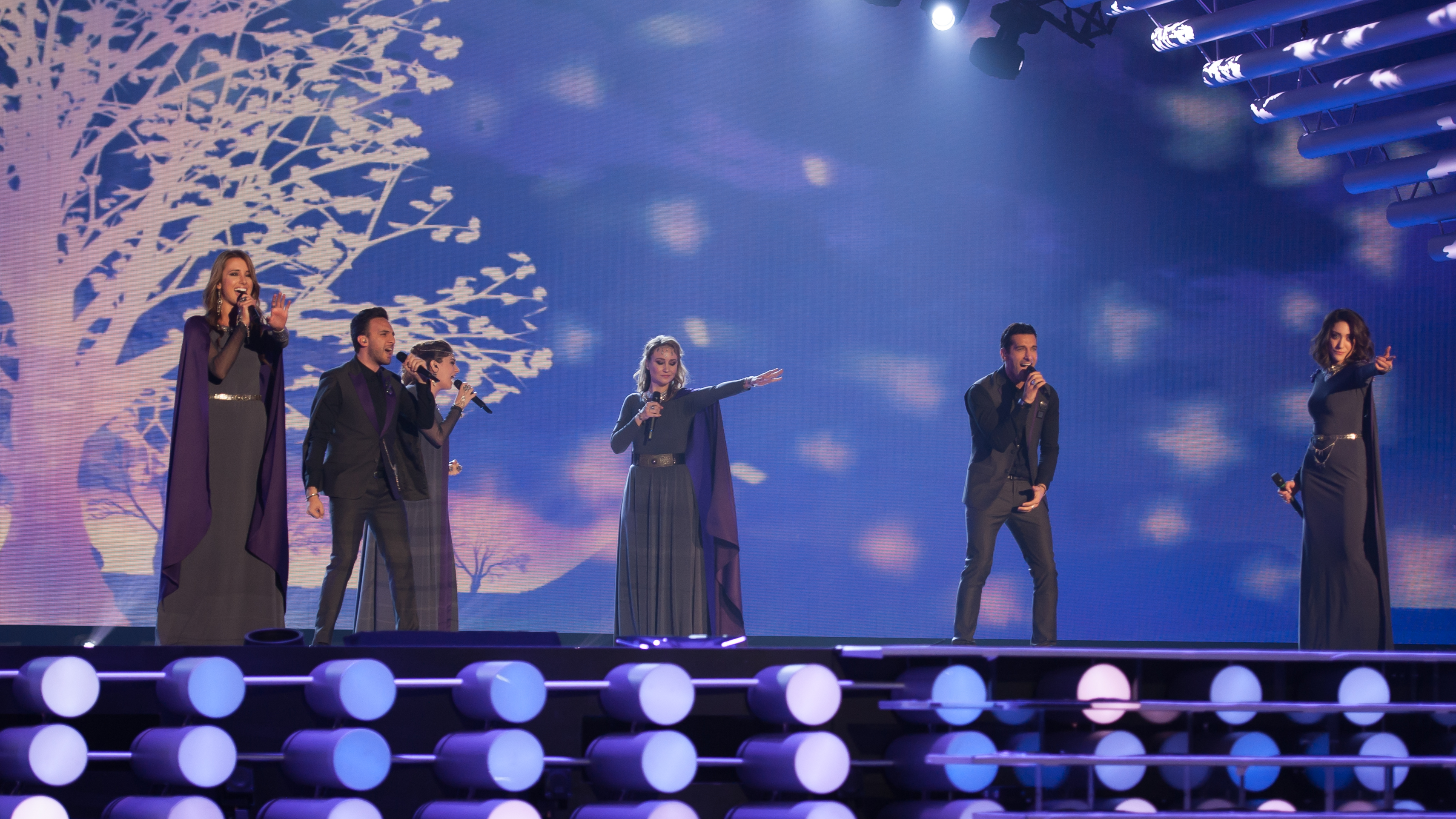 Eurovision Song Contest Vienna 2015: Genealogy, Armenia